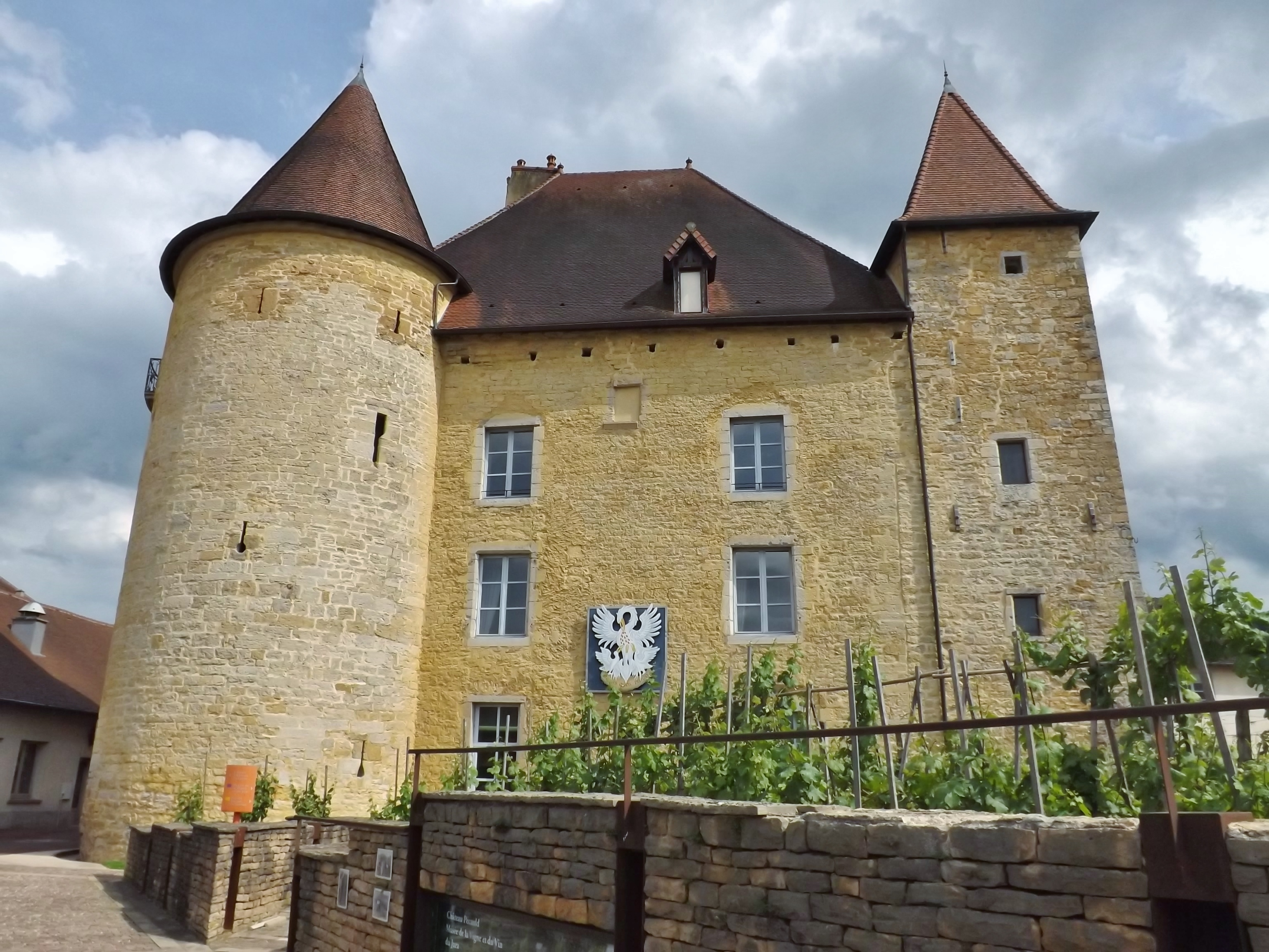 Sight of the Château Pécauld castle, hosting the musée de la vigne et du vin wine museum of Arbois in Jura, France.